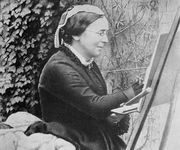 Portrait of Marianne North (1830-1890)